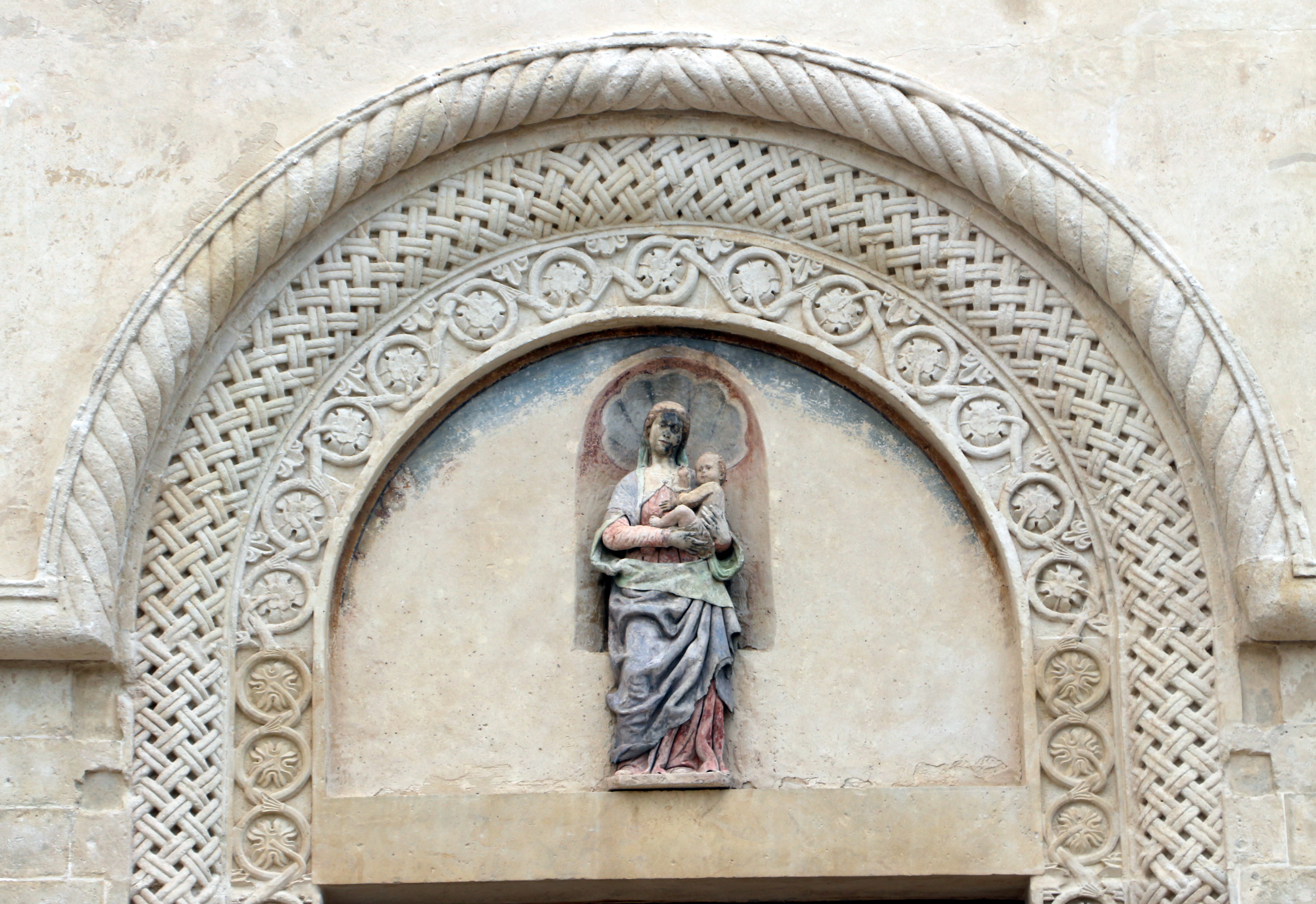 Cathedral (Matera)